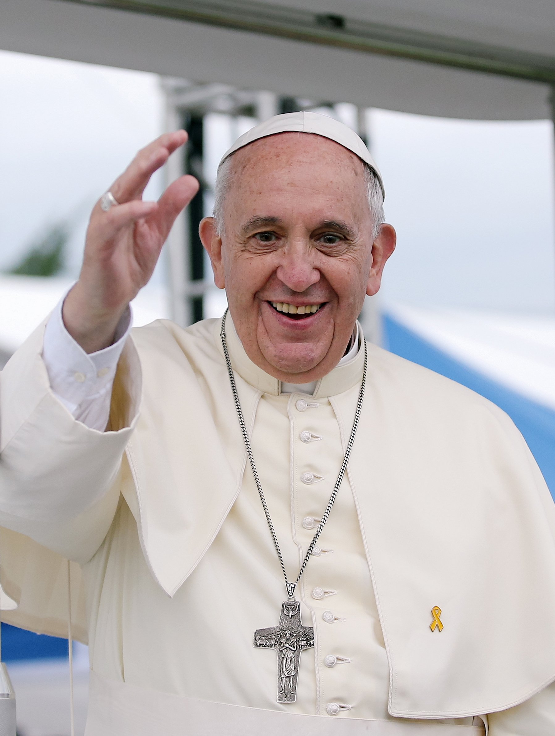 2014 Pastoral Visit of Pope Francis to Korea Closing Mass for Asian Youth Day August 17, 2014 Haemi Castle, Seosan-si, Chungcheongnam-do